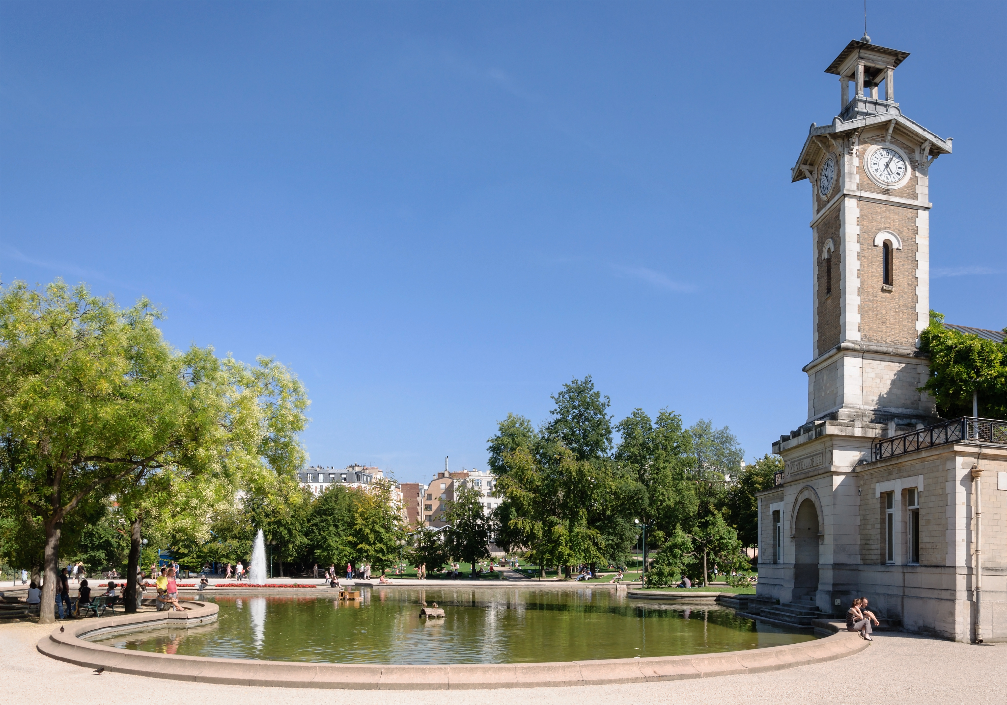 Georges-Brassens Park in the 15th arrondissement of Paris, France.